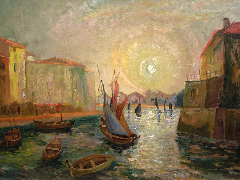 Jan Rubczak - Townscape from the Seaside, 1910-1920